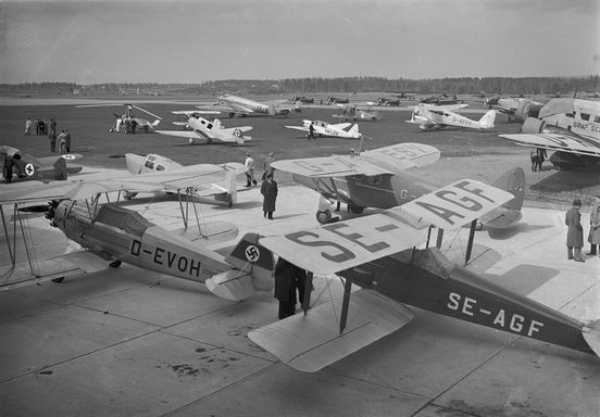 Airplanes of SILI II in Malmi airport, Helsinki - May 1938